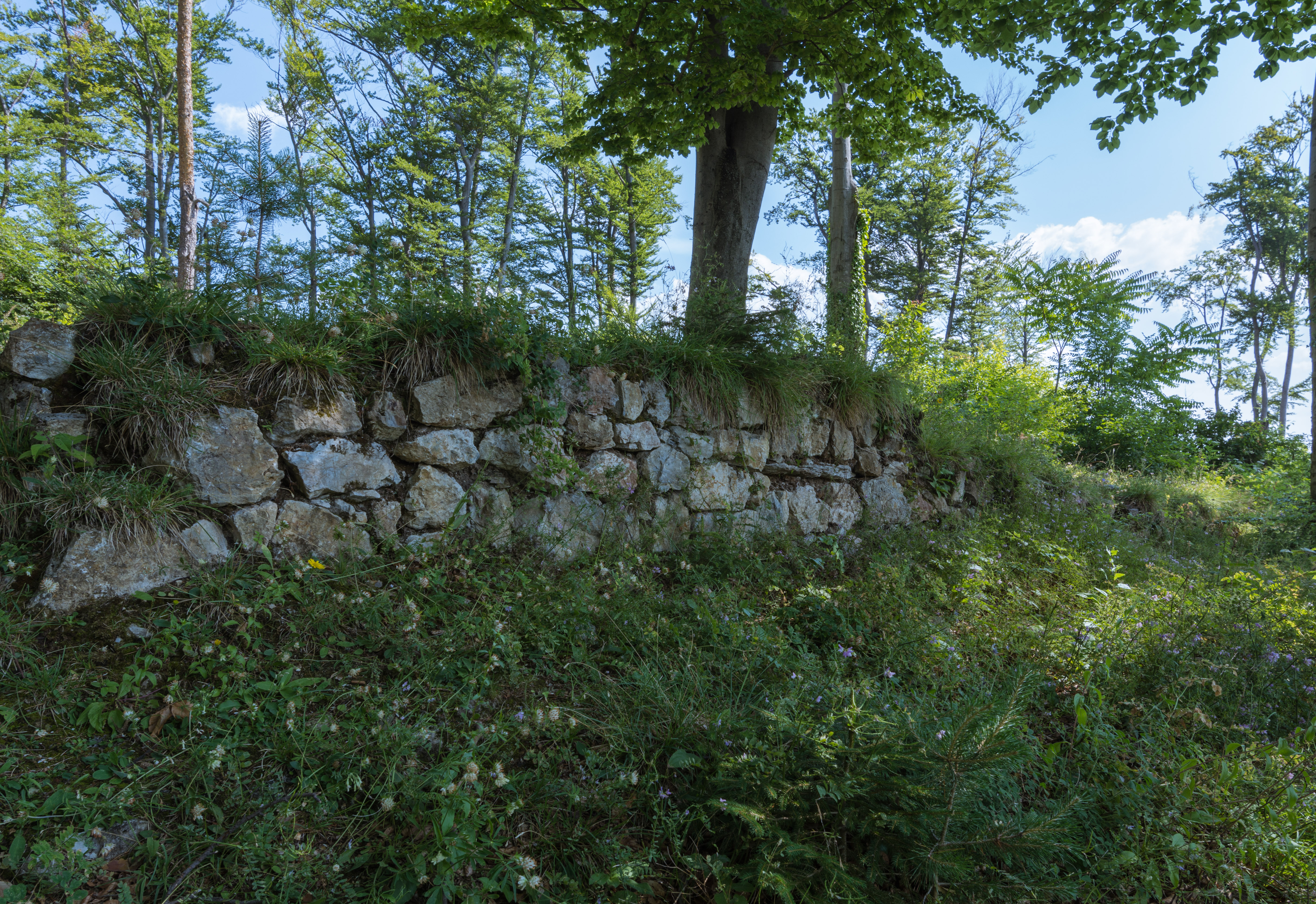 Only some basewalls of the defensive fortification Primaresburg on Franziskanerkogel in Maria Lankowitz are visible nowadays.